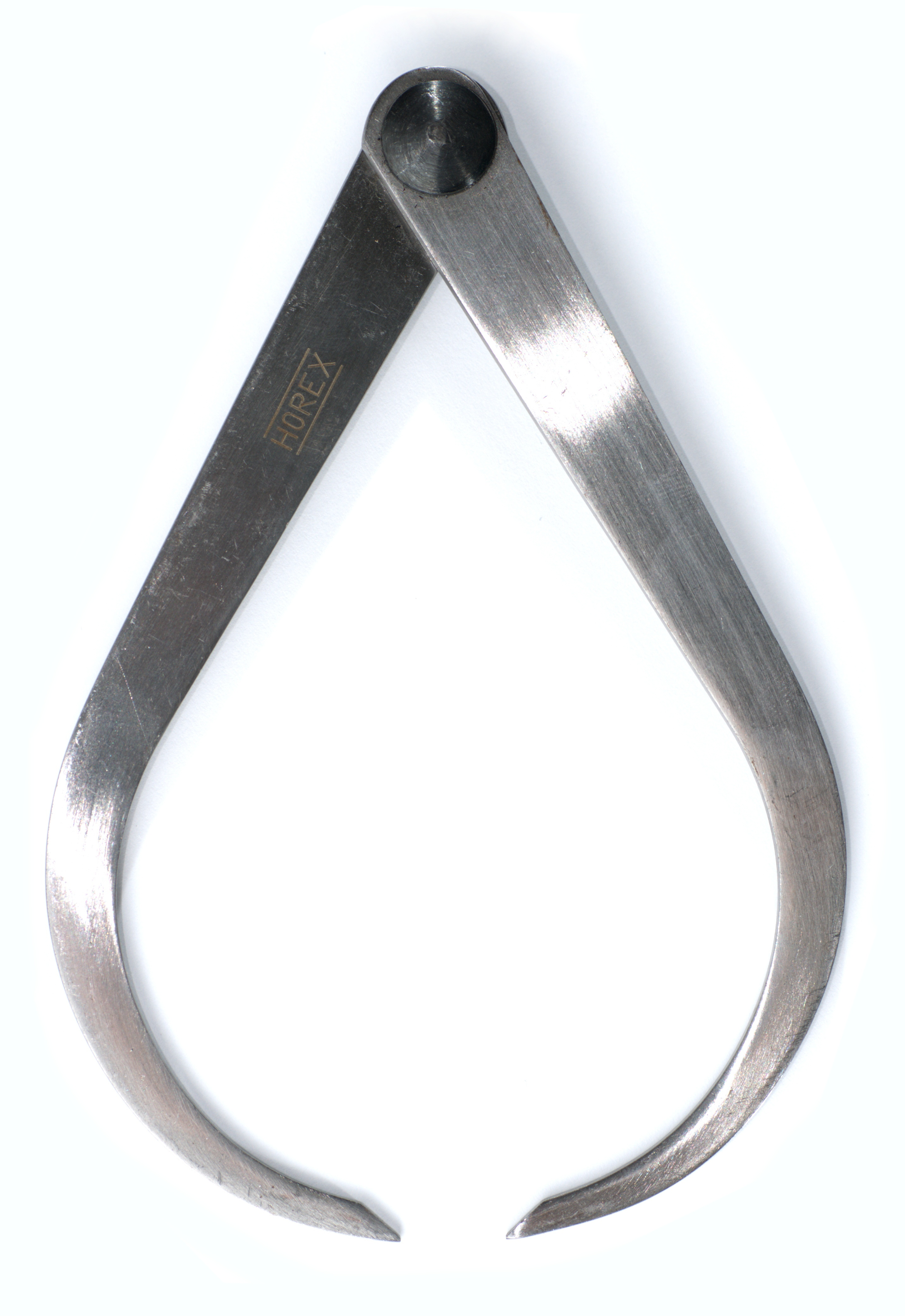 Outside Calliper